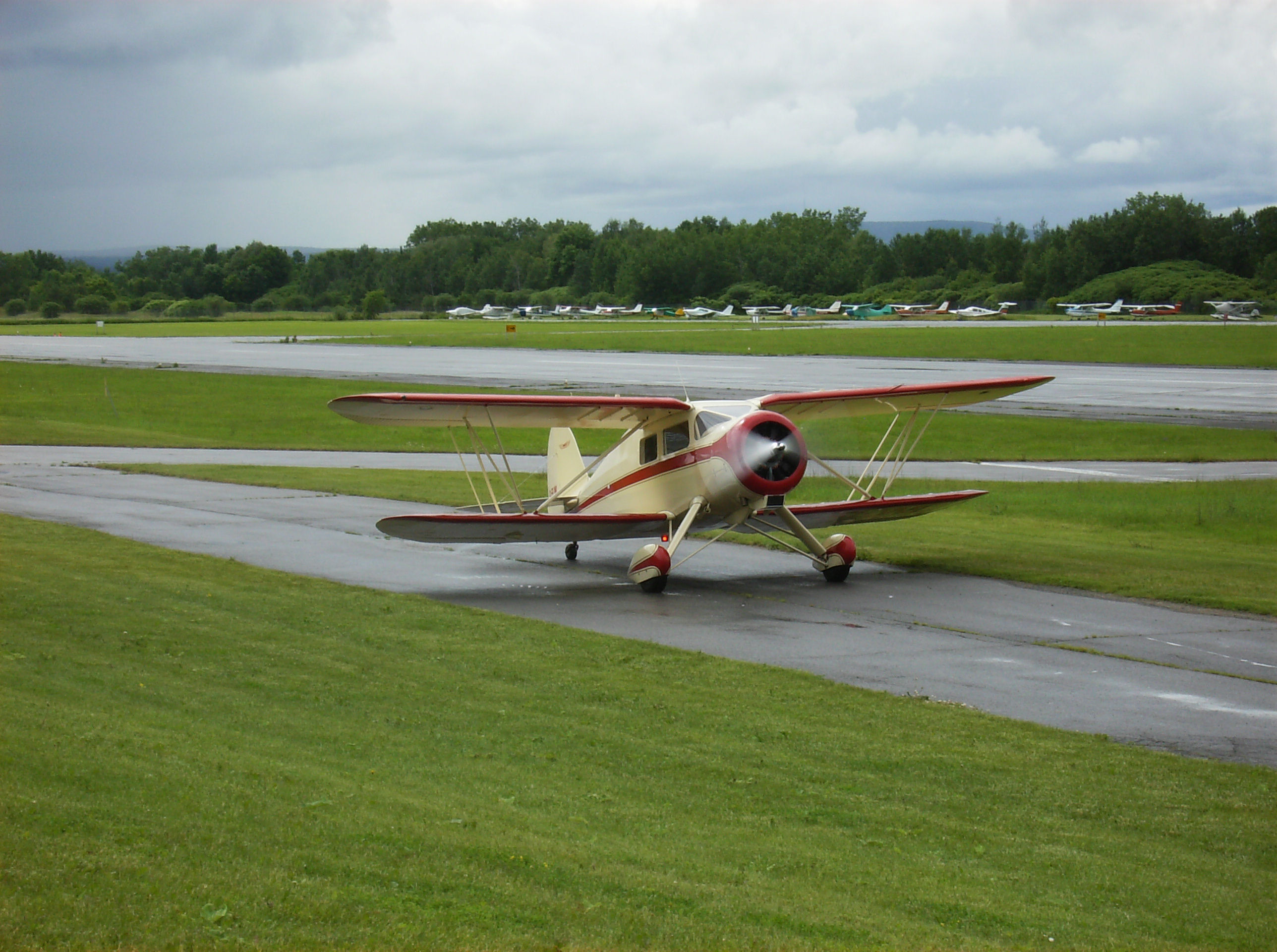 1937 Waco VKS-7 late Standard Cabin biplane (C-FLWL) at the Canada Aviation and Space Museum (Ottawa), Ontario on the occasion of its donation to the museum's collection, taxiing in after its final flight. Note the similarity in sizes of upper and lower wings when compared to the Custom Cabin sesquiplane.